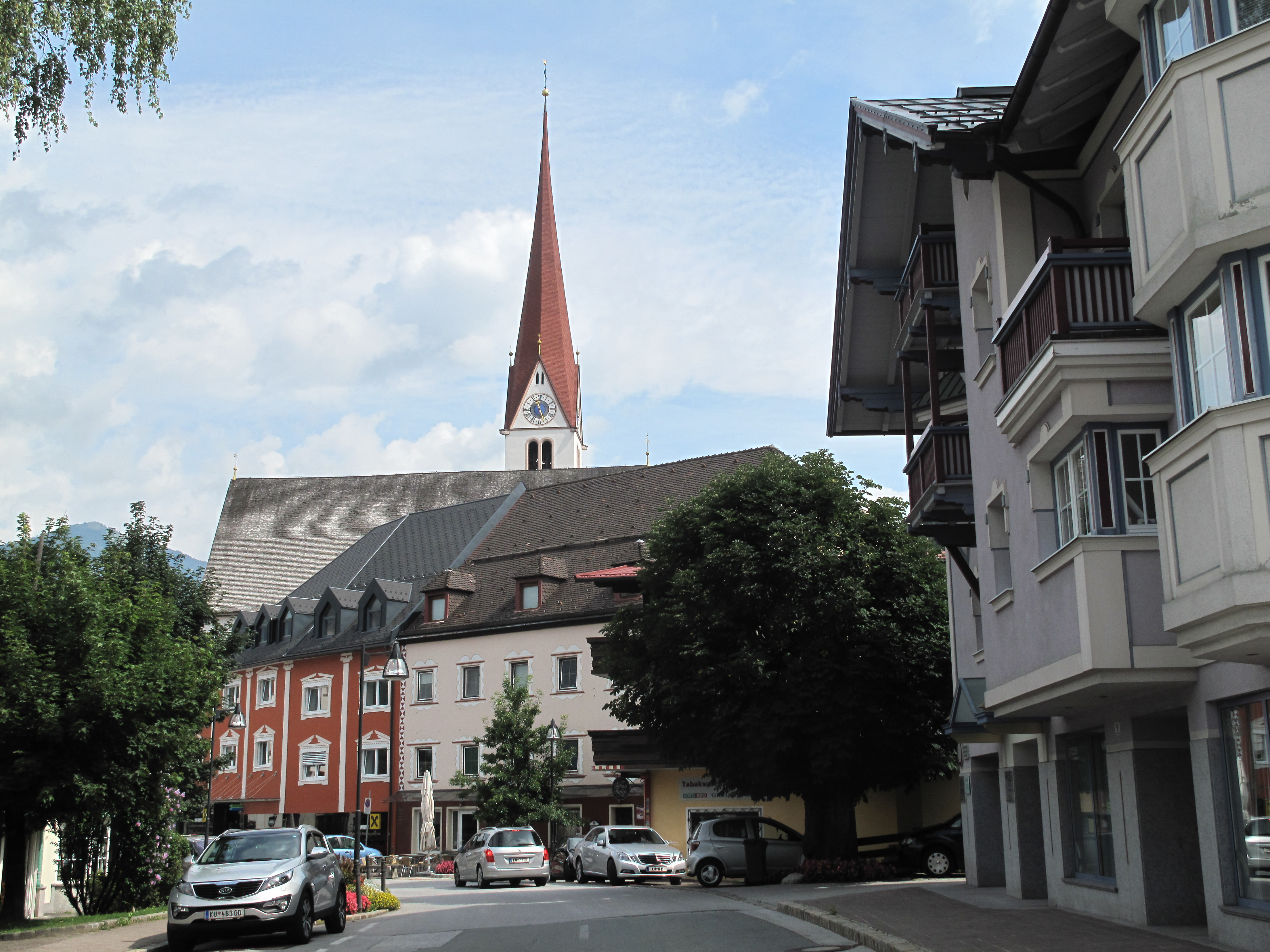 Brixlegg, street (Marktstrasse) and church (Unsere Liebe Frau Vermählung)